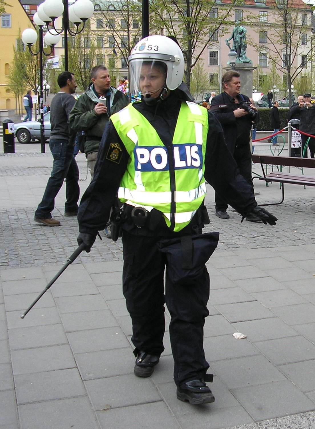 Swedish police with riot gear, notice the extended telescopic baton